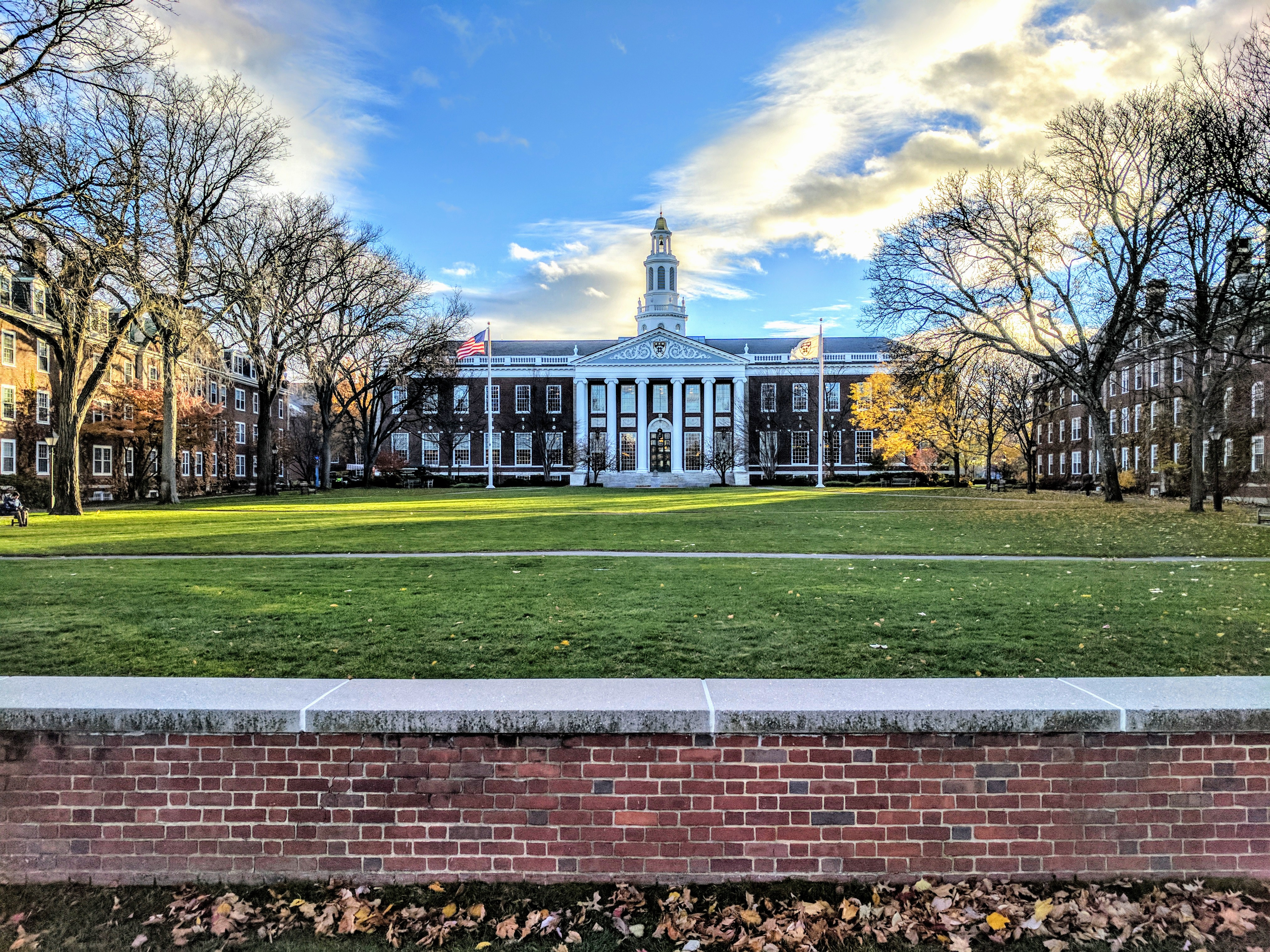 Baker library, Harvard Business School